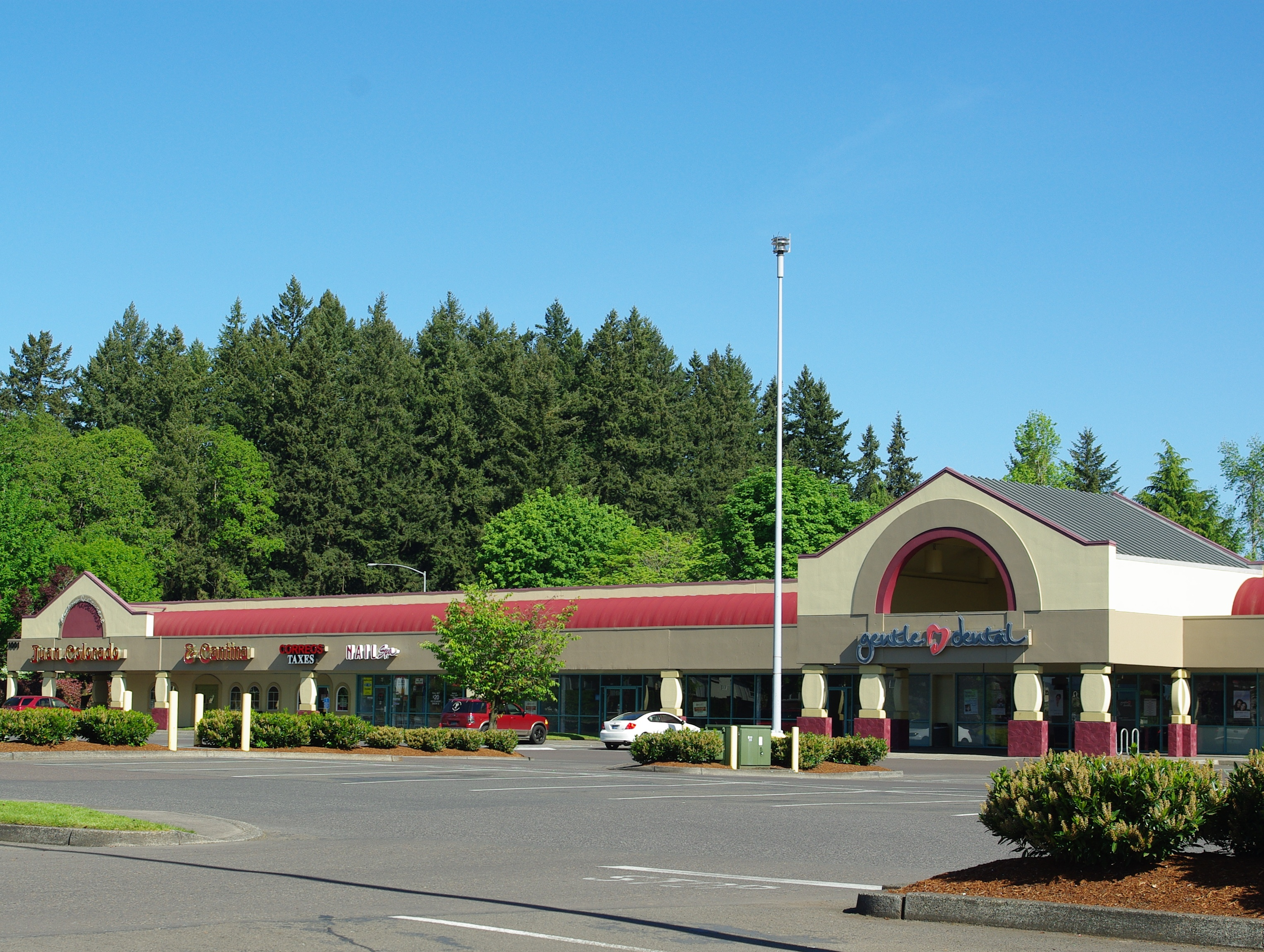 Juan Colorado and other shops at Shute Park Plaza in Hillsboro, Oregon.